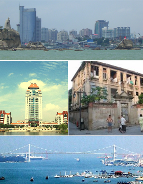 Montage of various Xiamen images